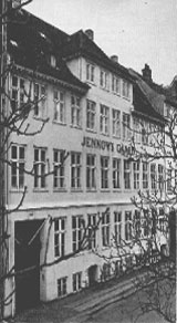 Vintage photo of Jennows Gård at Strandgade 12 in Christianshavn, Copenhagen, Denmark